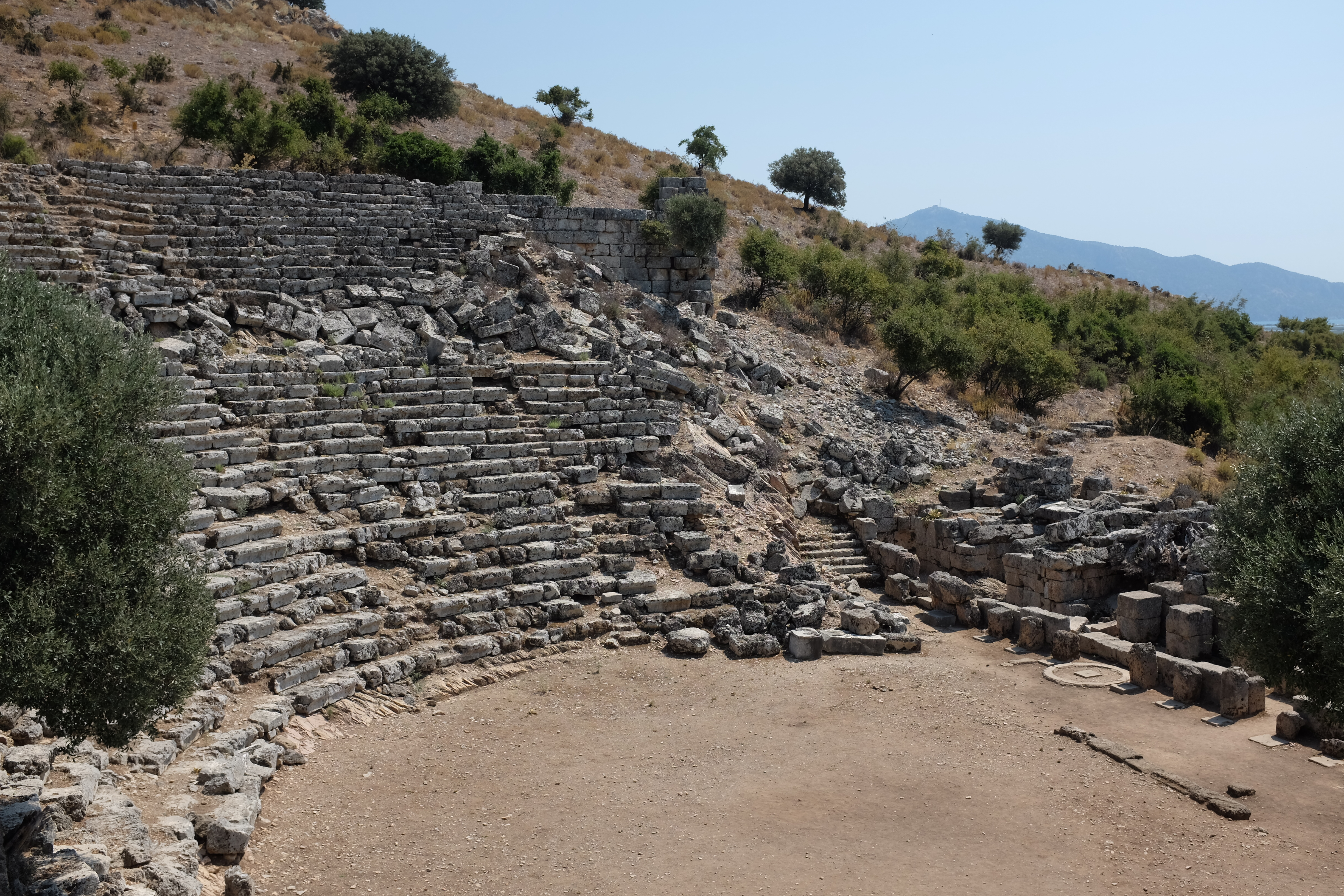 Built on the slope of the hill where the acropolis is located.